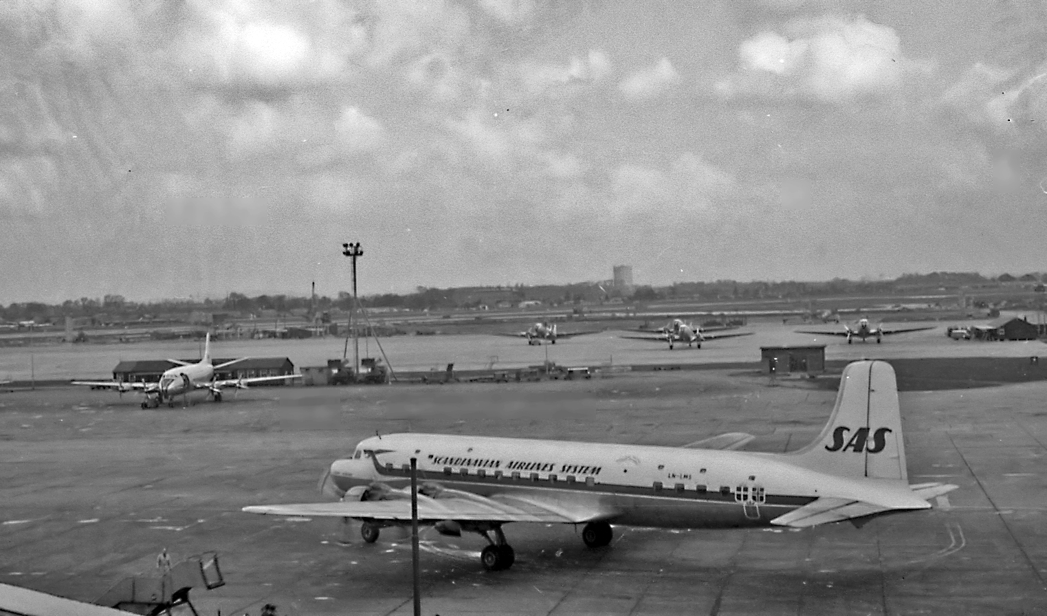 DC6, Heathrow, 1960